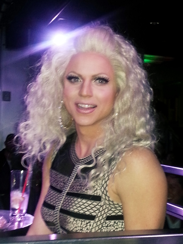 Courtney Act at the Cafe in San Francisco, California, United States.